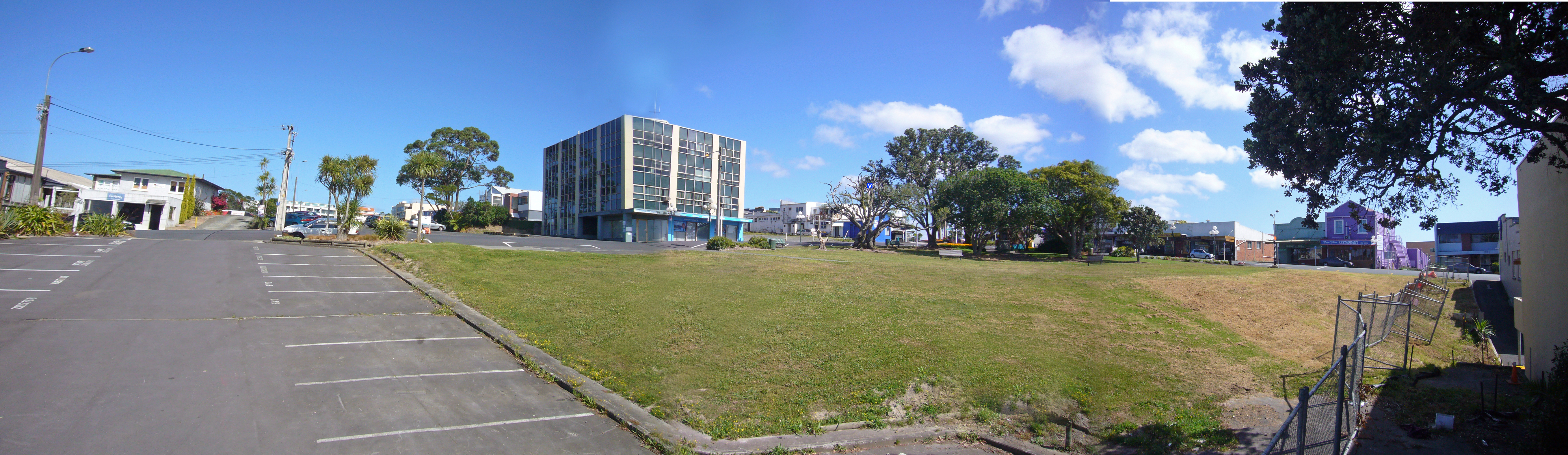 Greenspace encompassing Nell Fisher reserve, and former sites of Birkenhead Library and Plunkett rooms. Rawene Chambers in background. Point 'V' is the position ViewBirkenheadLibrarysite.jpg was taken from.